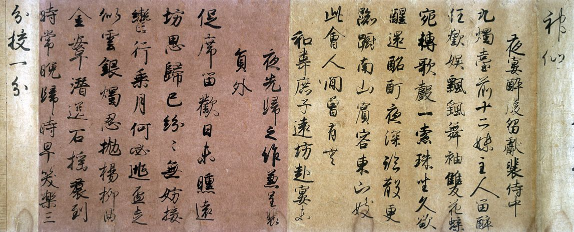 Part of the Poetic Anthology of Bo Juyi (白氏詩巻, Hakushi shikan) by Fujiwara no Yukinari. Collection of eight poems from volume 65 of the Poetic Anthology of Bo Juyi (Boshi, jap.: Hakushi) written on nine joined sheets. With a postscript by Yukinari and a colophon by Emperor Fushimi. One handscroll, ink on paper, 25.4 × 265.2 cm (10.0 × 104.4 in). Located at the Tokyo National Museum, Tokyo.